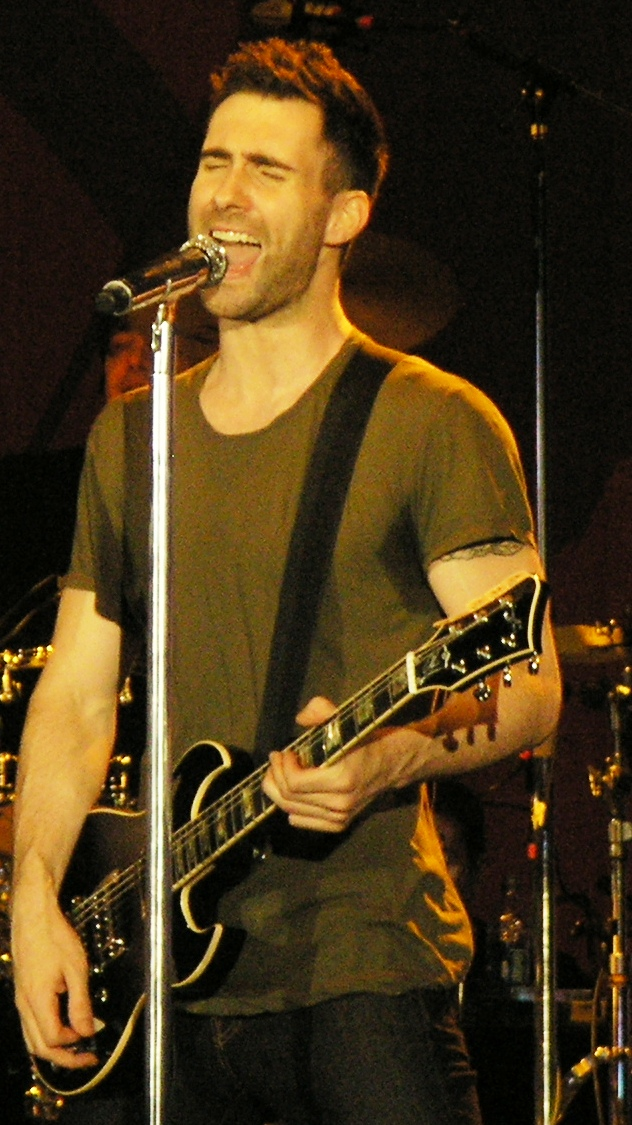 Taken during MyCokeFest at Centennial Olympic Park in Atlanta